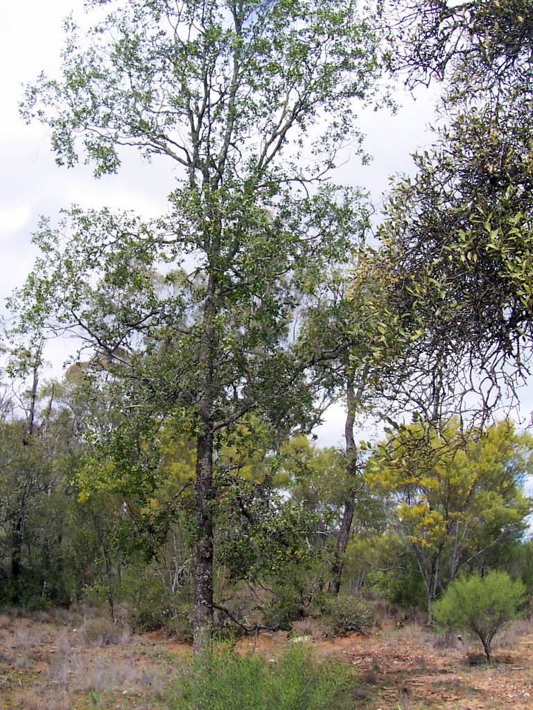 Gamilaroi Nature Reserve, near Moree. Ooline Tree, NSW, Australia